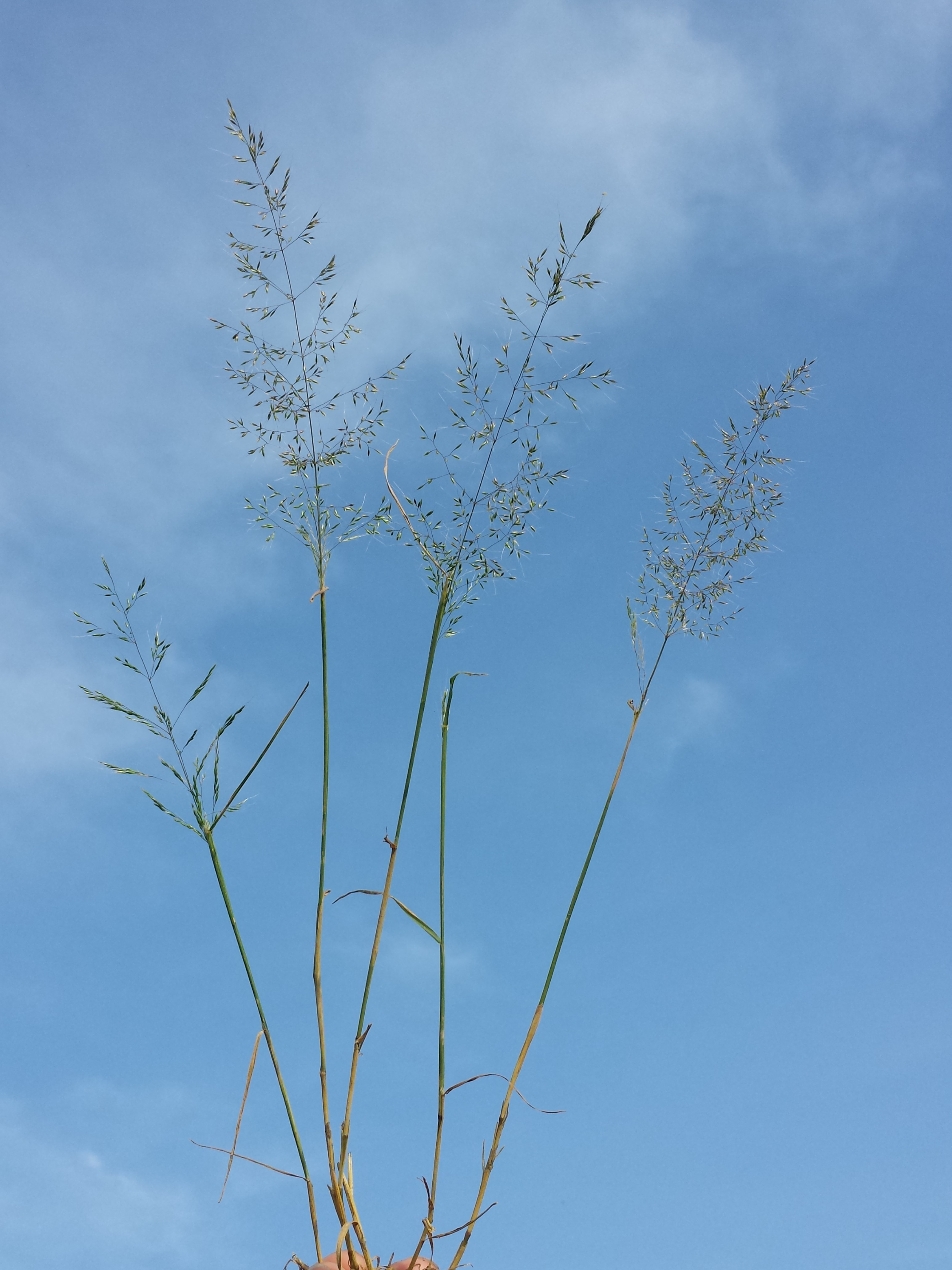 Habitus Taxonym: Apera spica-venti ss Fischer et al. EfÖLS 2008 ISBN 978-3-85474-187-9 Location: Stammersdorf, Vienna-Floridsdorf - ca. 160 m a.s.l. Habitat: border of a field